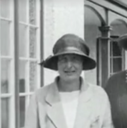 Ladies' Golf Final in Portmarnock, Ireland. Miss "Janet" Jackson and Mrs Babington